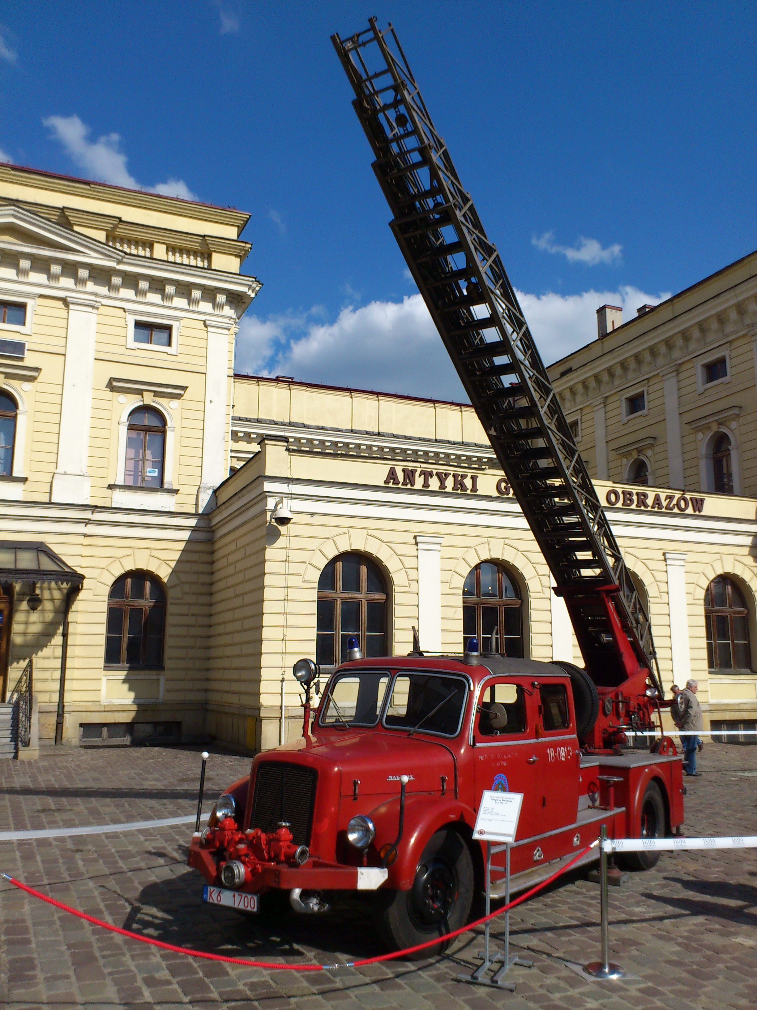 SDA-25/16 Magirus from Muzeum Pożarnictwa w Alwerni during "Straż pożarna wczoraj i dziś" exhibition on Jeziorańskiego square in Kraków. This fire engine previously served in PSP Wieliczka.